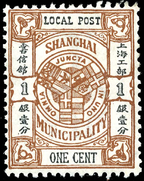 Shanghai 1c stamp of 1893